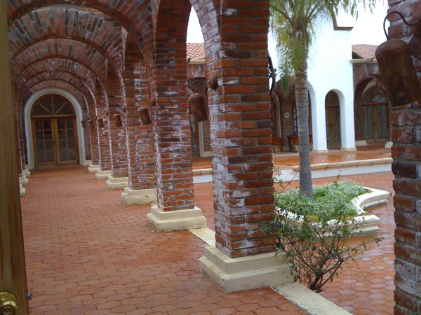 "Los arcos" (The arches), the central corridor/passage on "Adobe Guadalupe", a reference point in the vineyard.